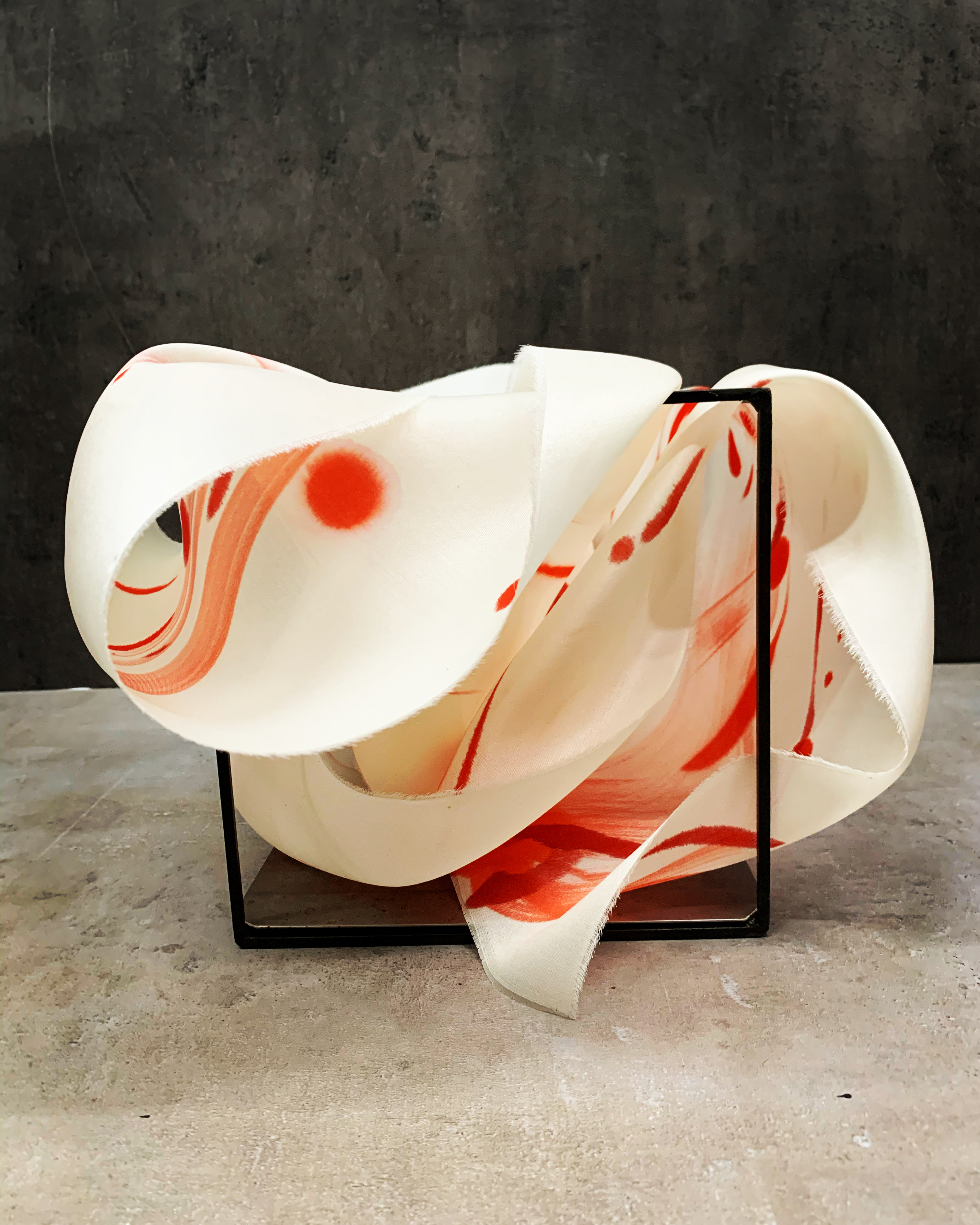 THE CUBE: House, container, basket in which Cassandra arrives as a slave in Mycenae, where she will be assassinated by Clytemnestra. A rigid structure, overflown by fire and blood. WHITE: The color of Cassandra’s robe. The color of dawn, this empty moment between night and day, when the world of dreams still covers reality. RED: The color of fire and blood. Fire is essentially tied to life. When shed, blood is tied to death. Each silk piece has a handwritten sentence: 1. I was alone with my reason. 2. The word as a weapon for freedom. 3. Speaking with my own voice. 4. Alone among men and with no Gods.